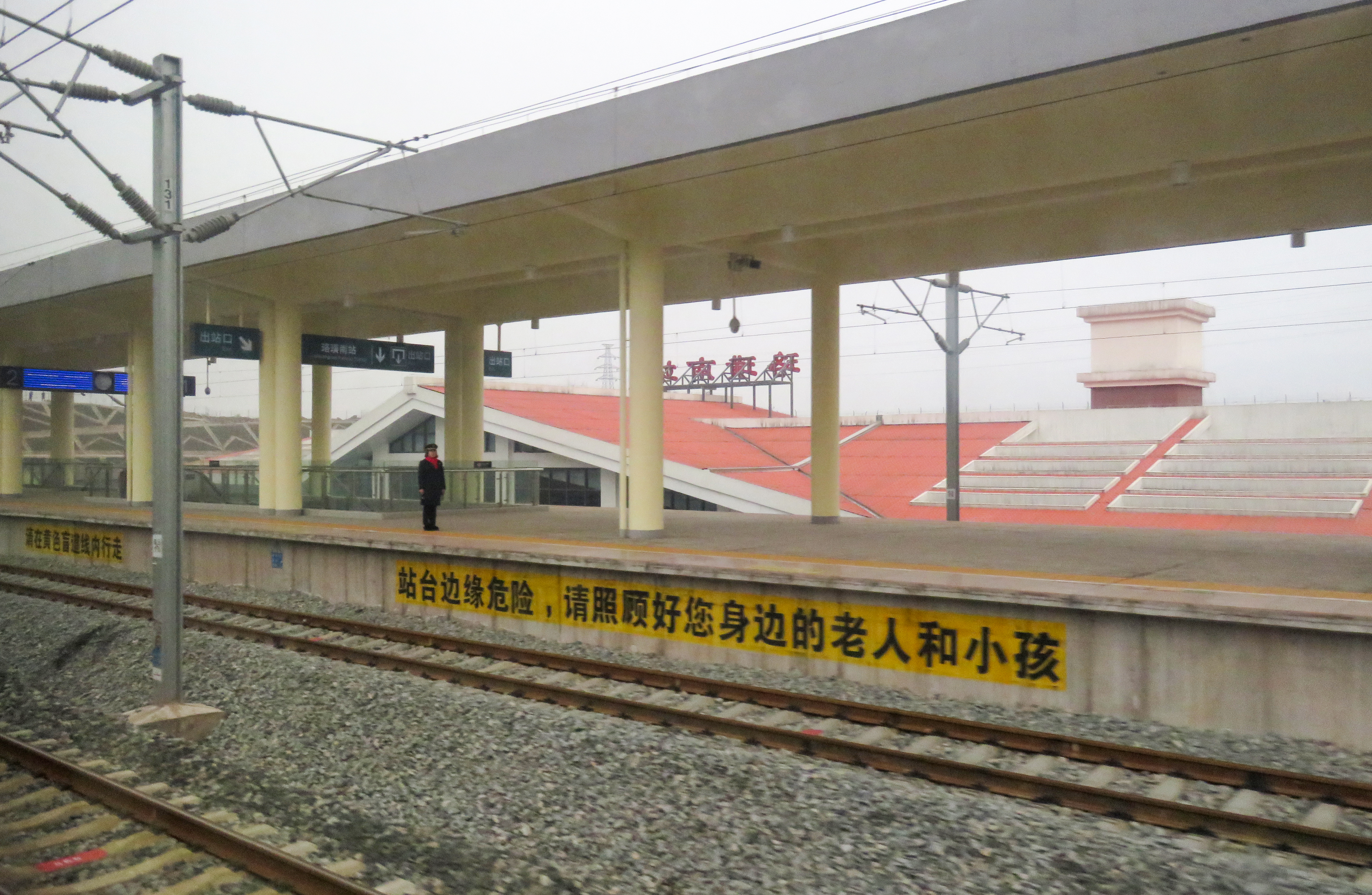 Taken from G2888.